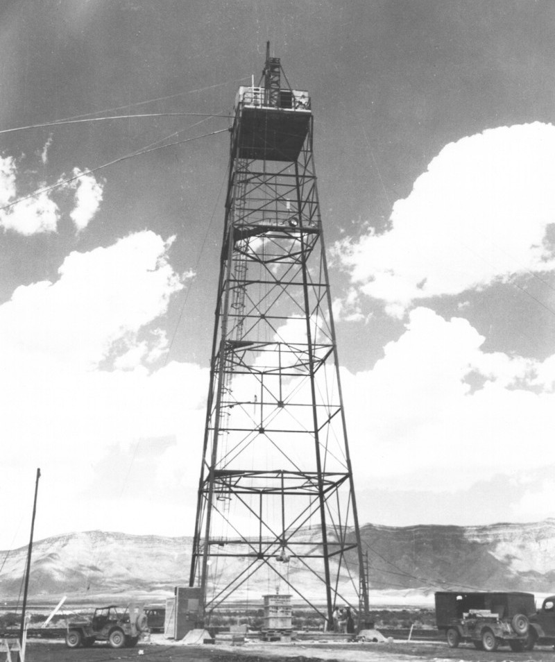 The tower with "the gadget" used in the Trinity test, 1945.